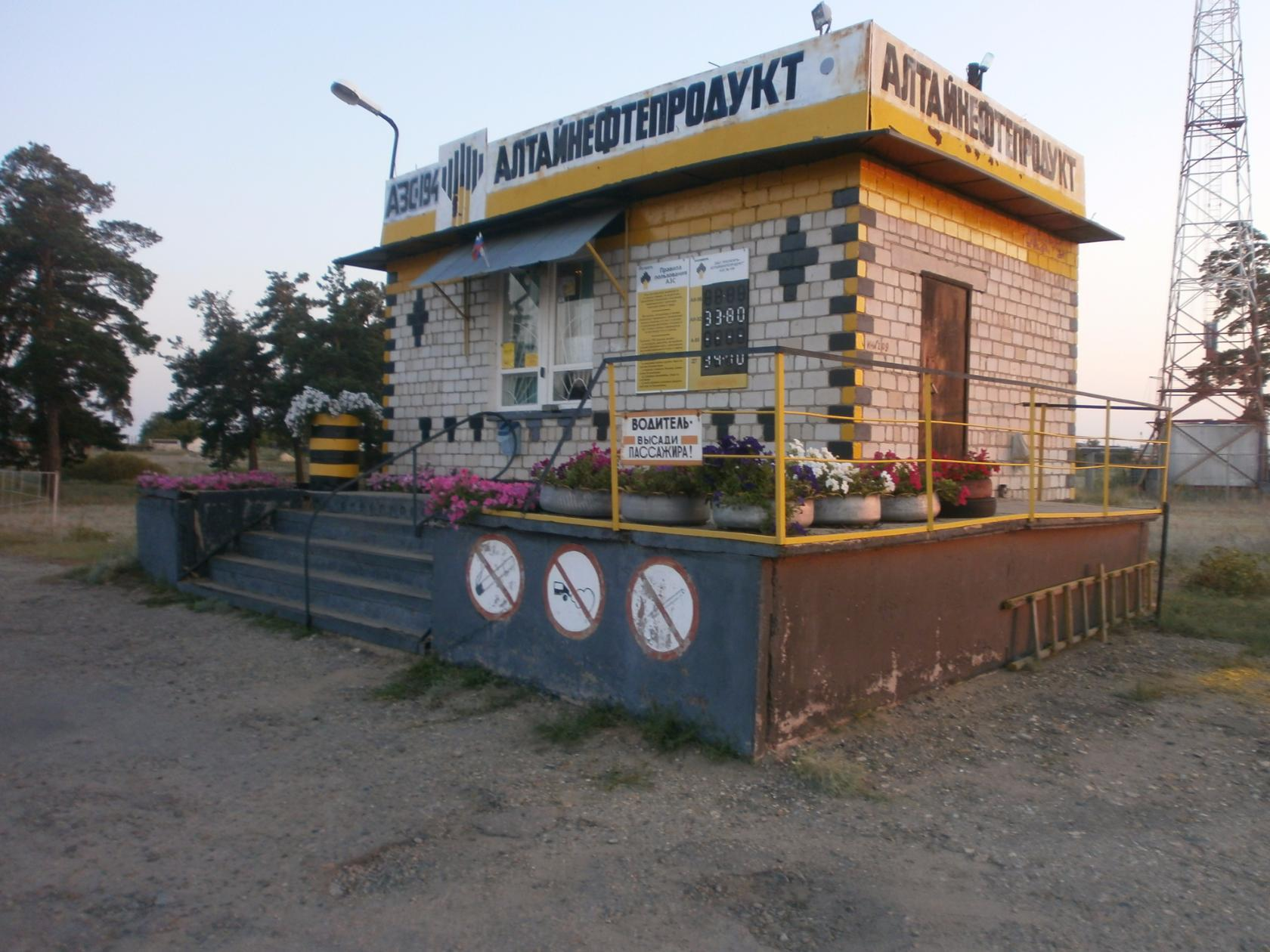 Azs Rosneft